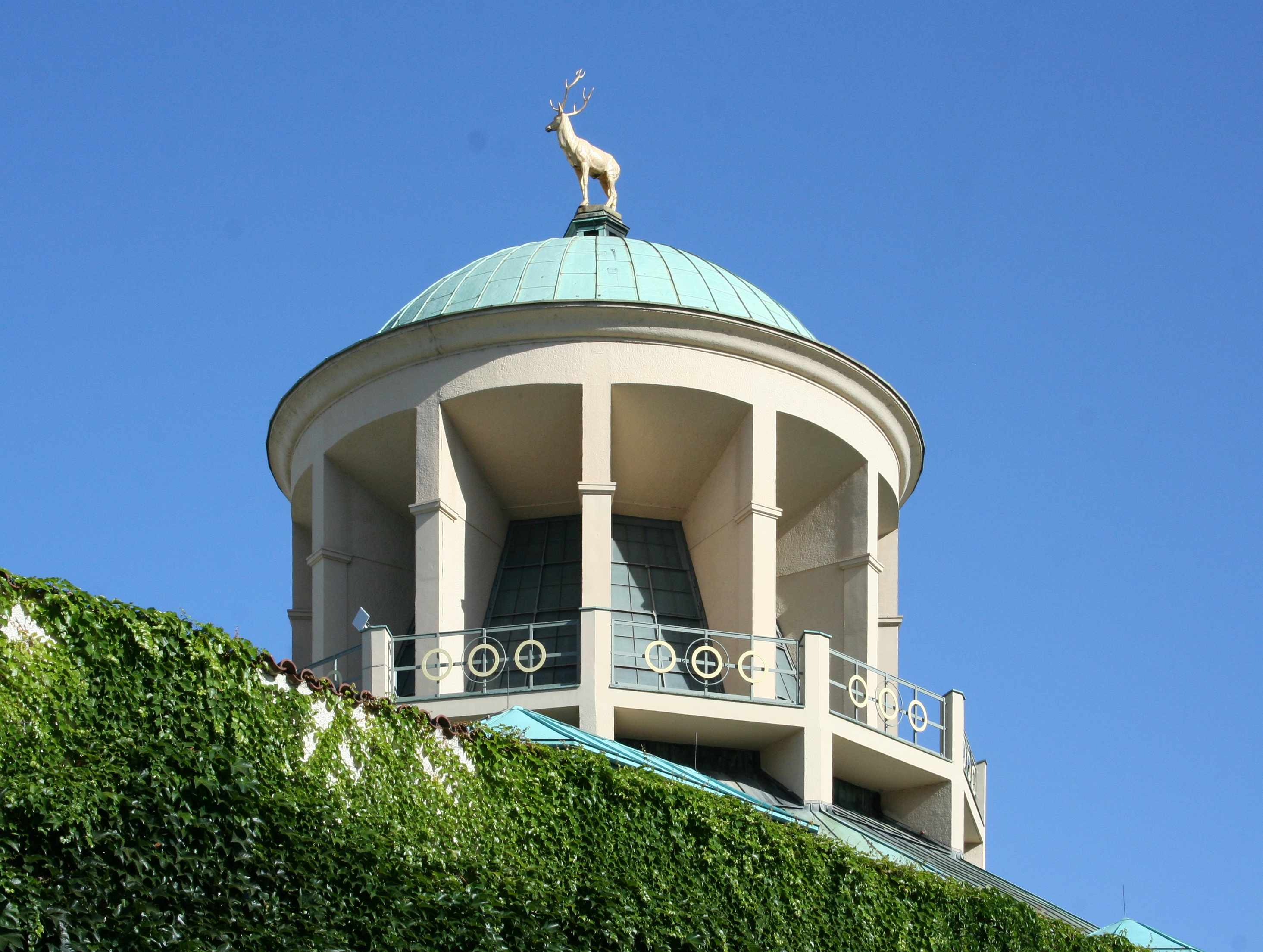 Art building in the castle square in Stuttgart. Arcade construction and dome building builds from 1910 to 1913 from Theodor Fischer. Reconstruction and enlargement from 1956 to 1961 from Paul Bonatz and Günter Wilhelm. Town district Stuttgart middle, Baden-Wurttemberg, Germany.